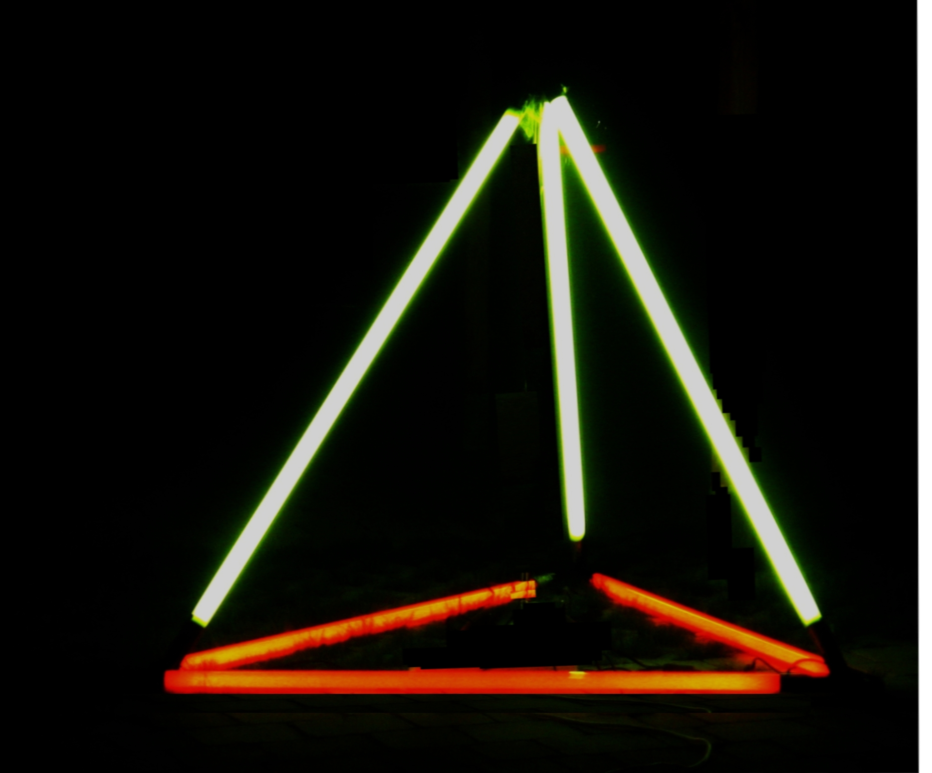 Tetraeder - Lightart object by Martina Schettina, designed für the Light Art Biennale Austria 2010, presented in Langenzersdorf, Austria, foto taken in public space in Mai 2010